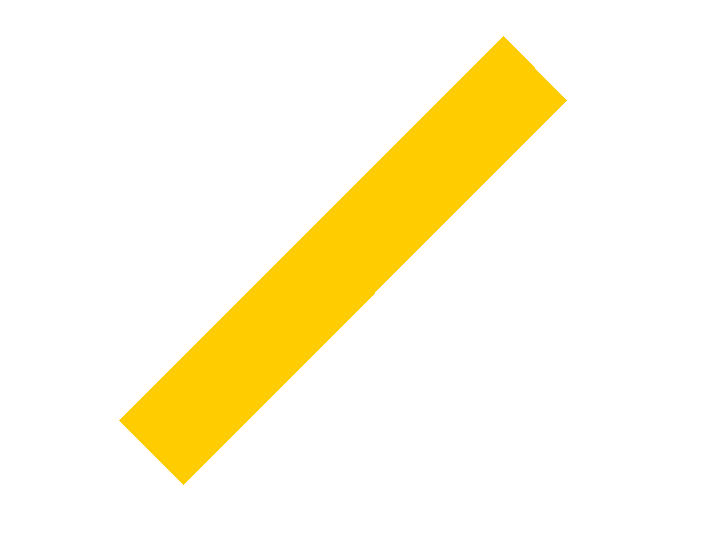 Mark of Ww2 GermanDivision Panzer 10 - 1939